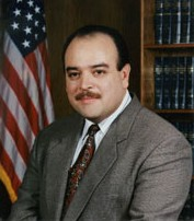 Lieutenant Governor of California Cruz Bustamante